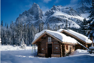 Elizabeth Parker Hut in Winter